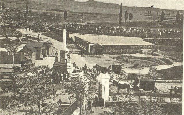 Hamidiye Şadırvan 19th C